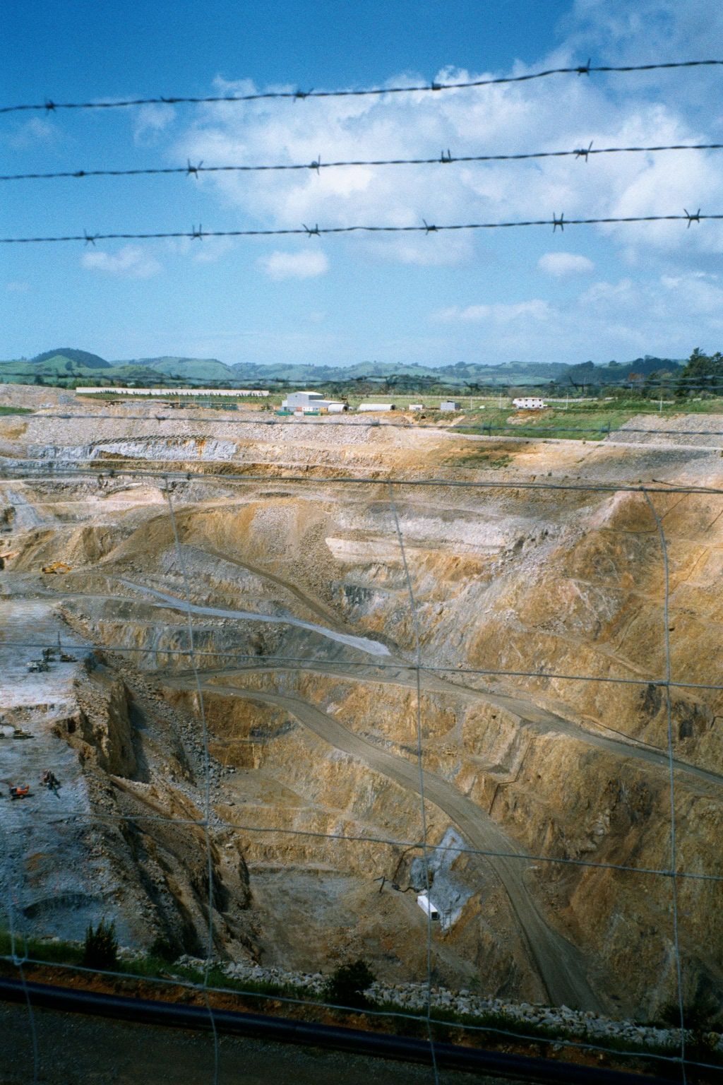 Martha Mine, Waihi, North Island, New Zealand